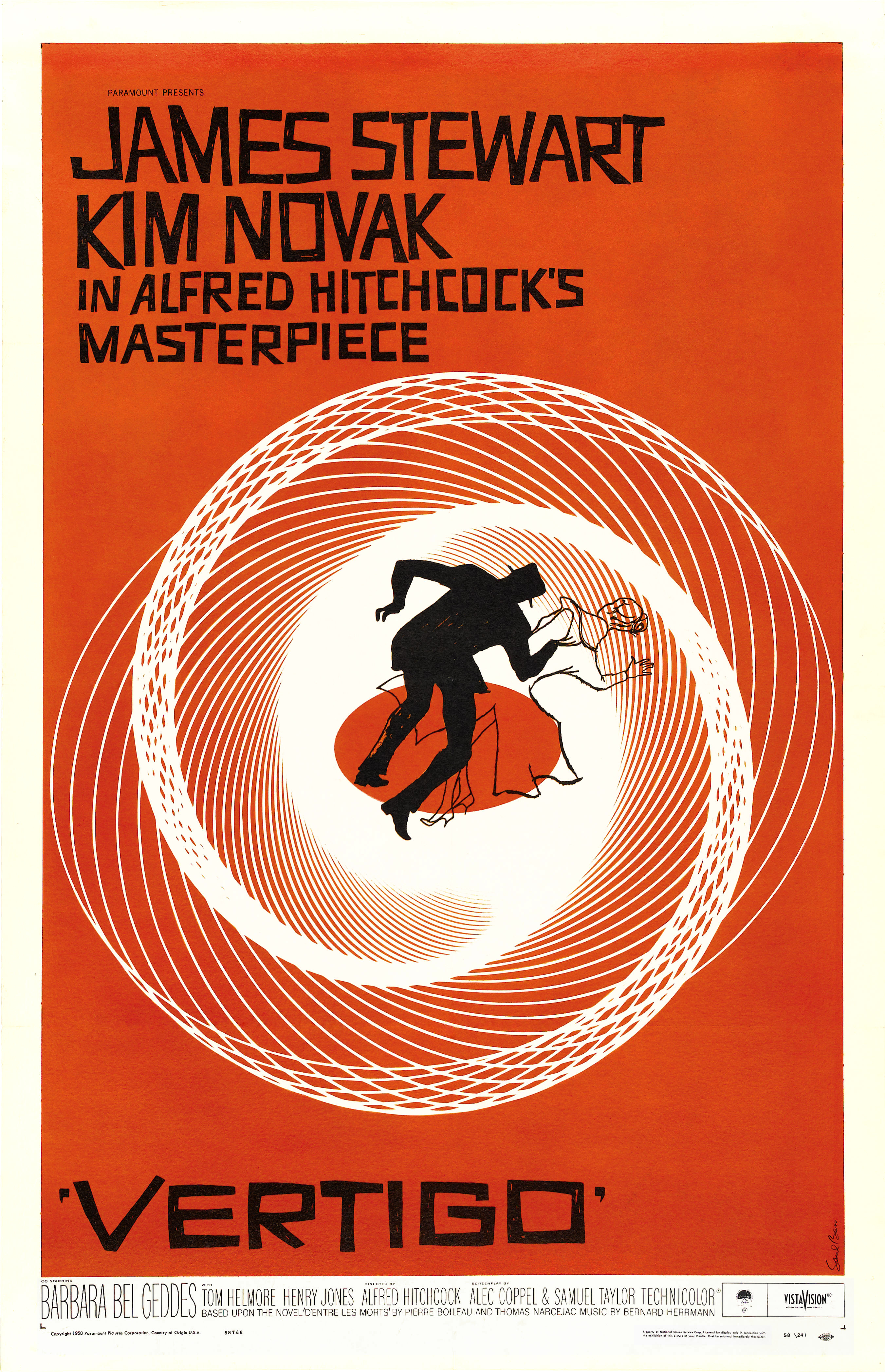 Theatrical poster for the film Vertigo. Restored by Adam Cuerden. Work done: Long fold (?) marks removed. Minor blobs fixed.